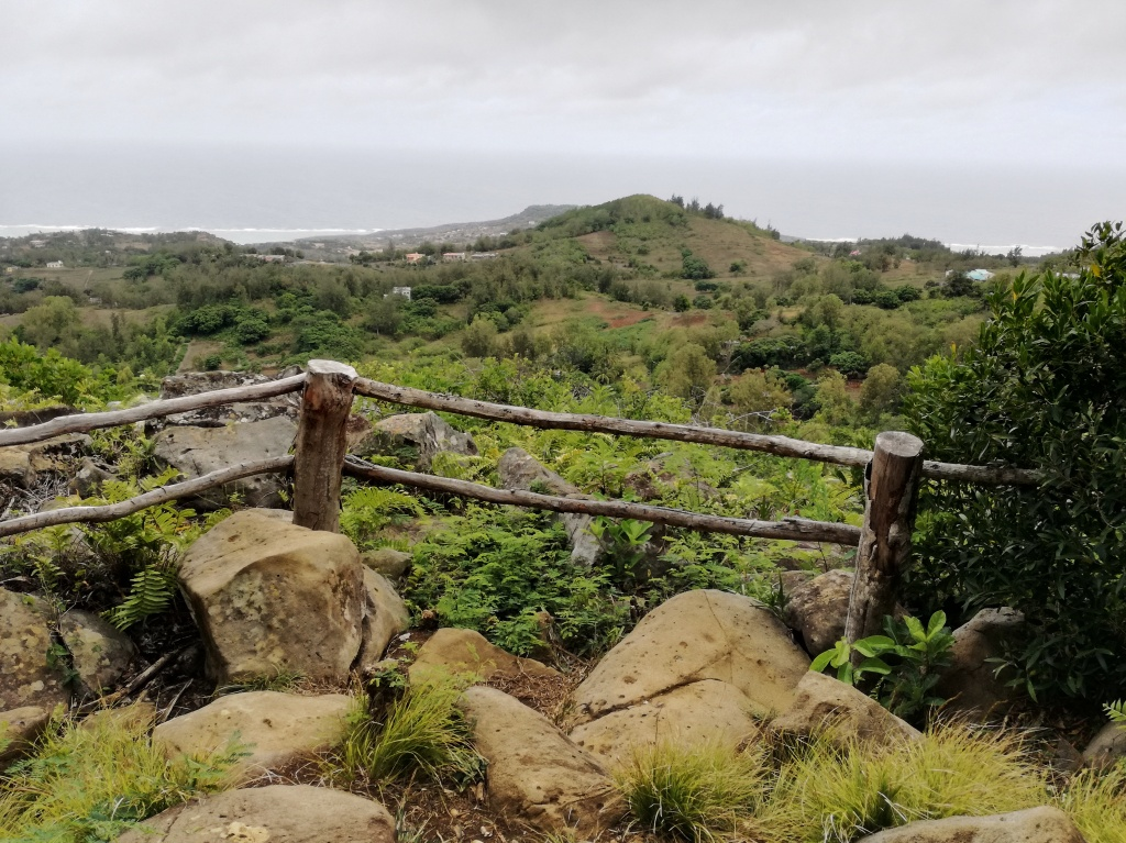 Grande Montagne Nature Reserve Rodrigues